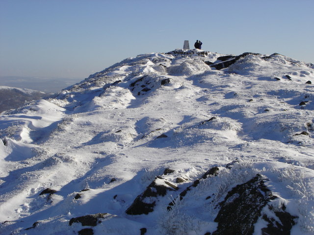 Summit of Sugar Loaf. The summit of Sugar Loaf on a winter's day.